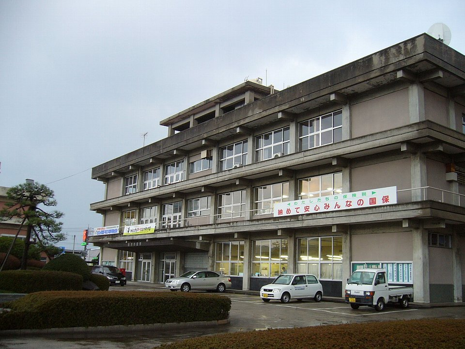 City office of Sakaiminato, Tottori, Japan